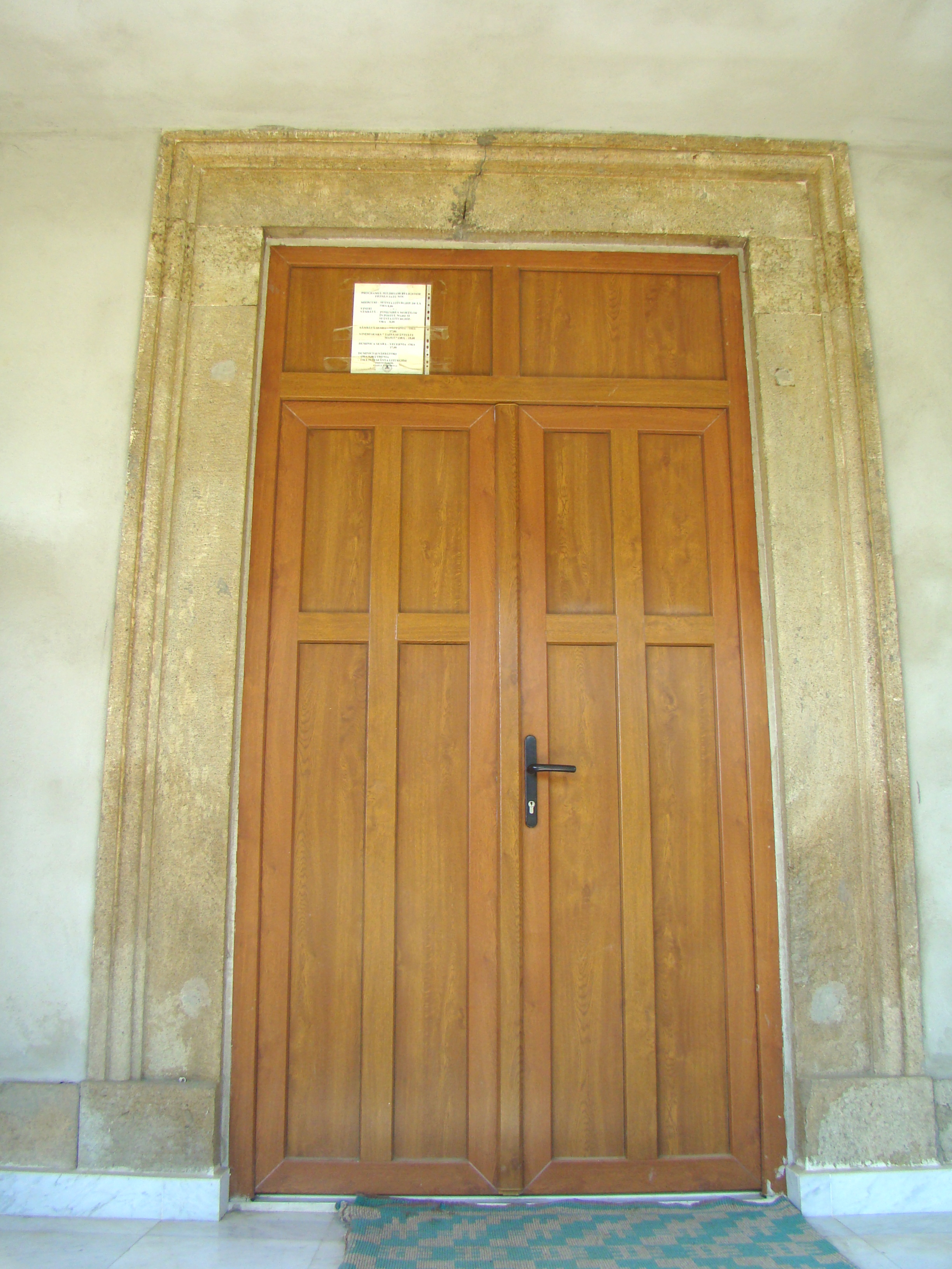 Former lutheran church in Satu Nou, Bistrița-Năsăud county, Romania